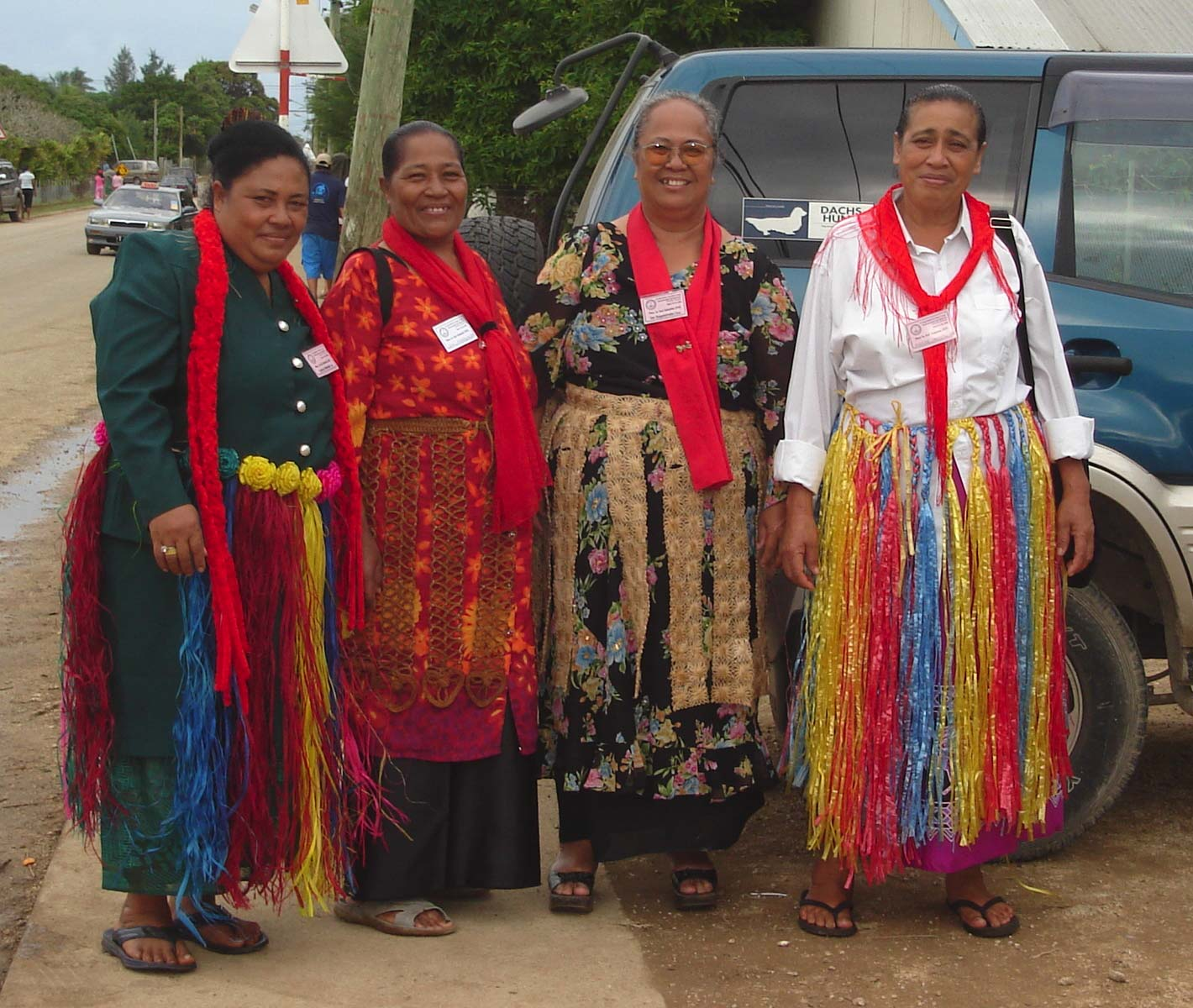 Four Tongan ladies dressed on their best with a kiekie on their way to the conference